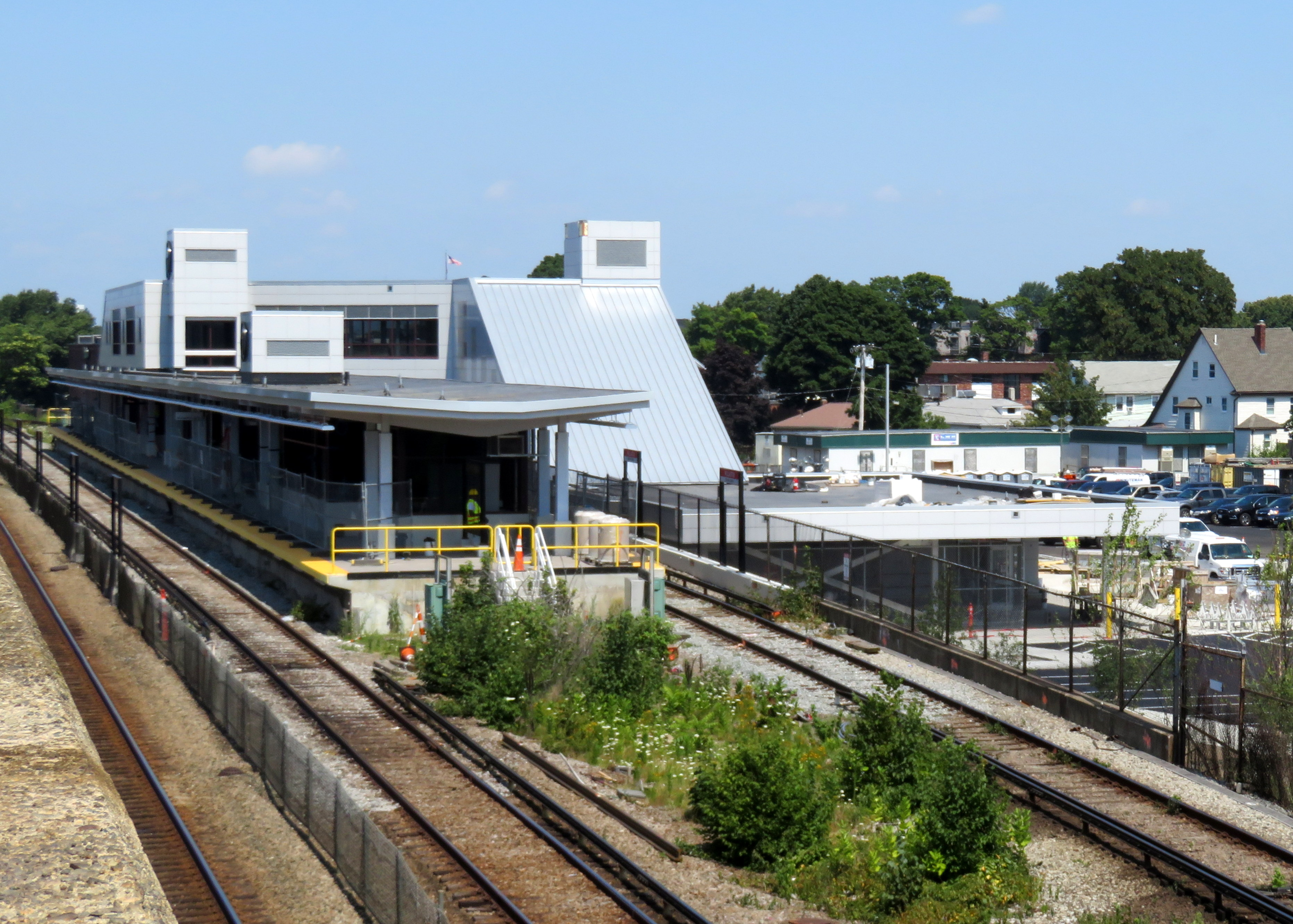 Wollaston station near the completion of reconstruction in July 2019